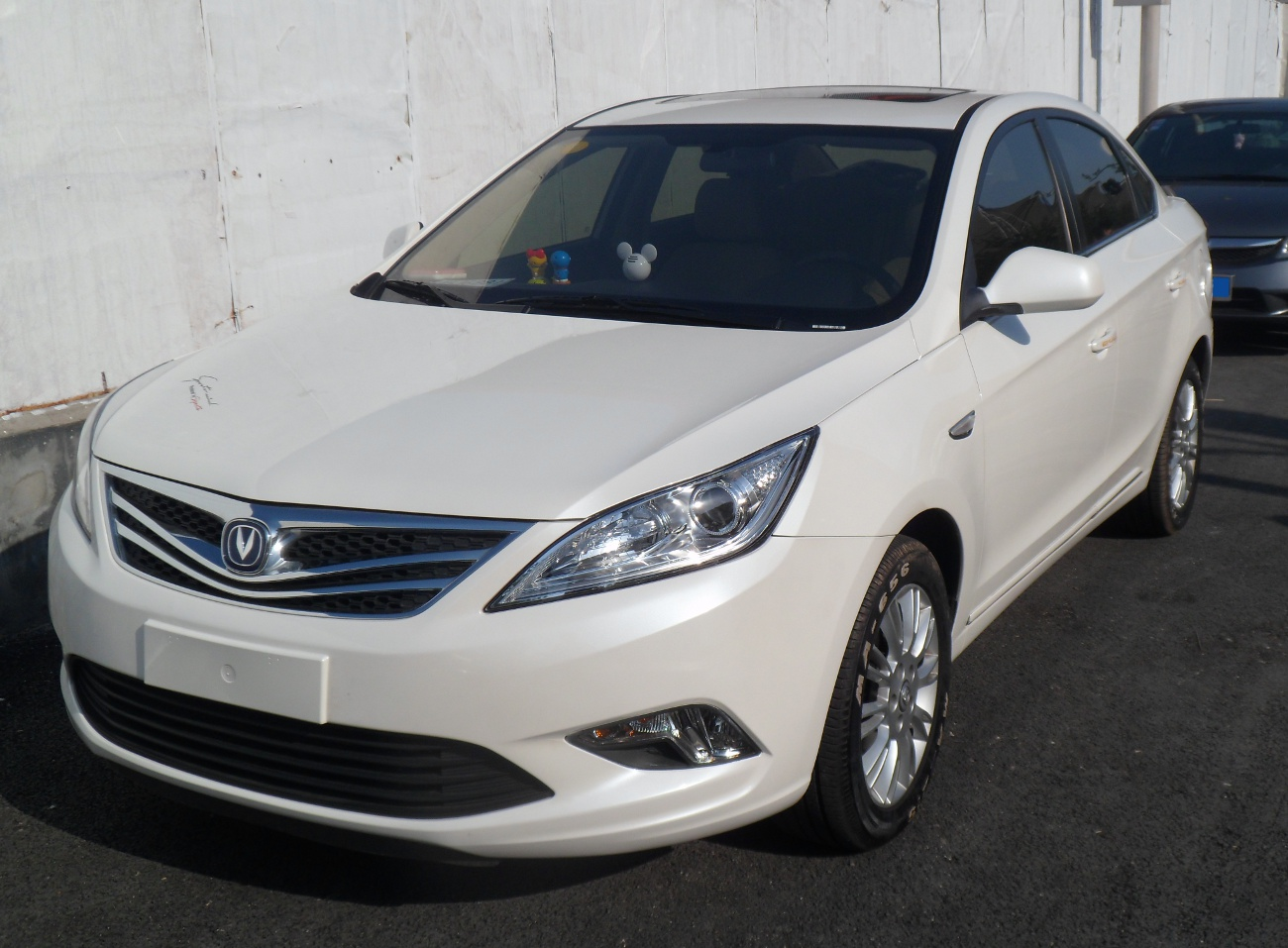 Chang'an Eado photographed in Shanghai, China.